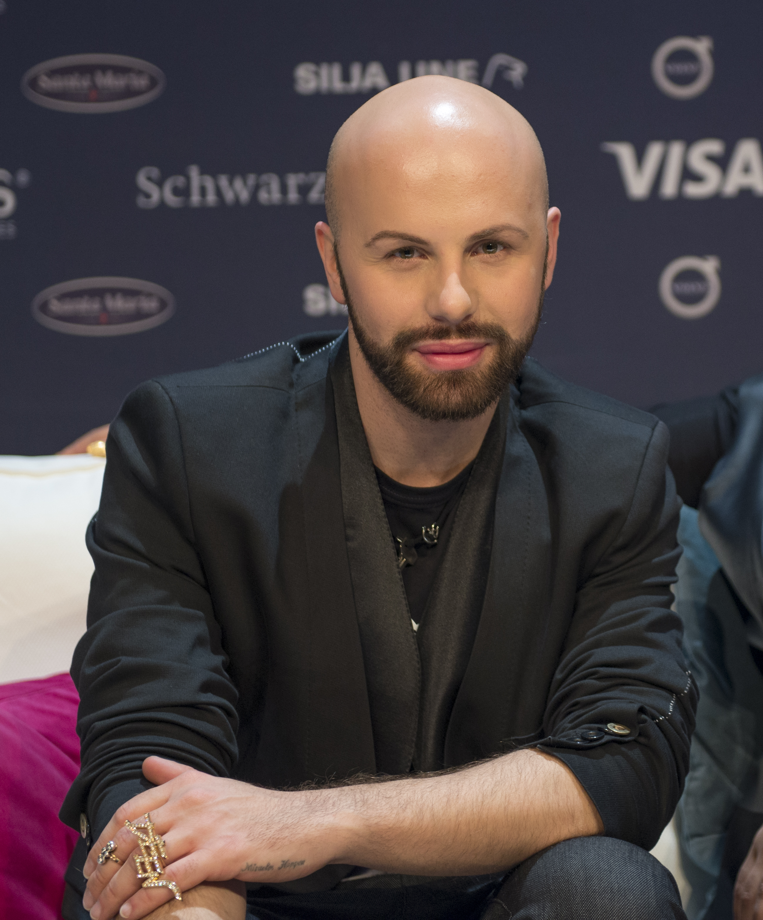 Dalal & Deen feat. Ana Rucner and Jala at a Meet & Greet during the Eurovision Song Contest 2016 in Stockholm. (Help translate this text)